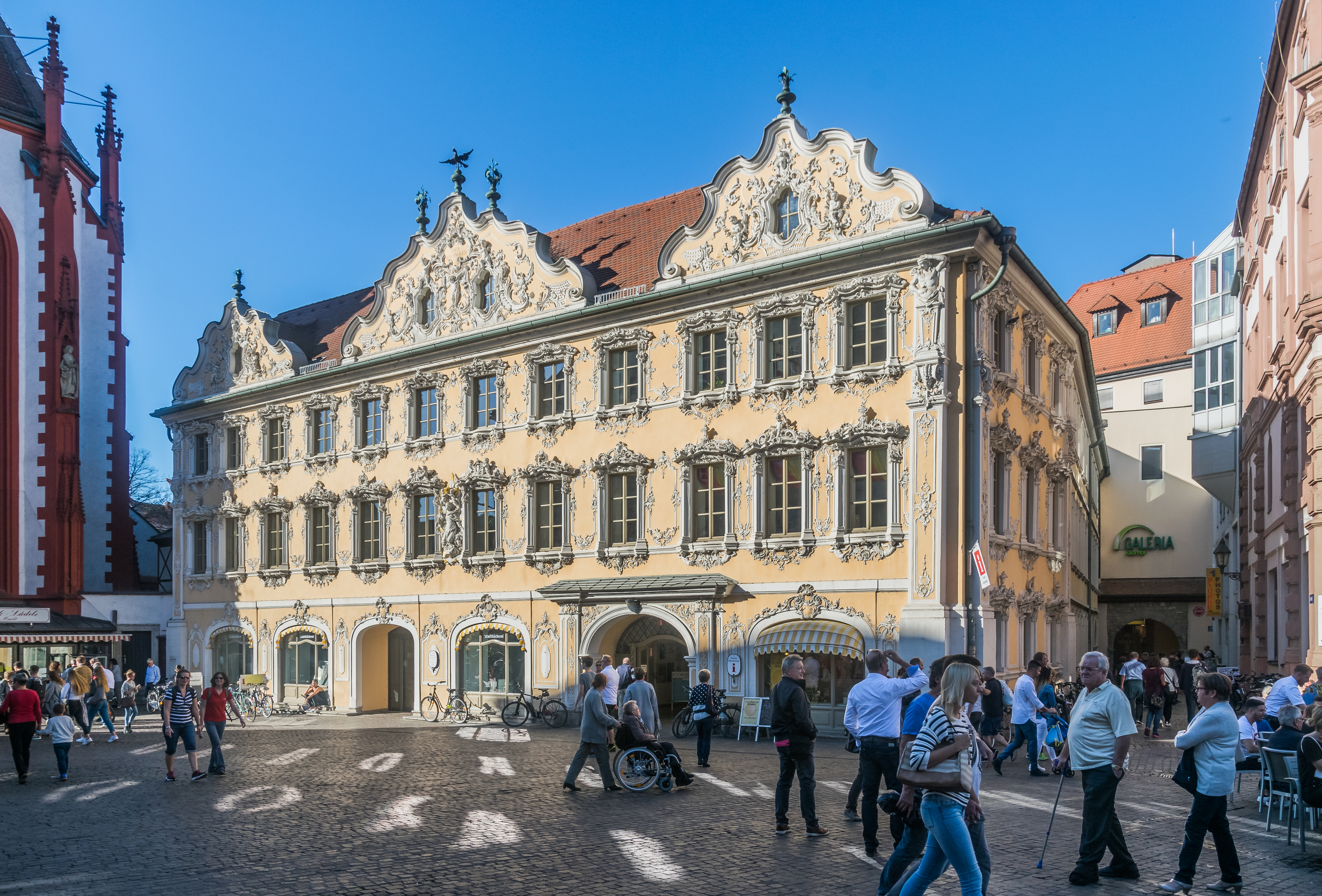 Falkenhaus at Marktplatz 9 in Würzburg, Bavaria, Germany